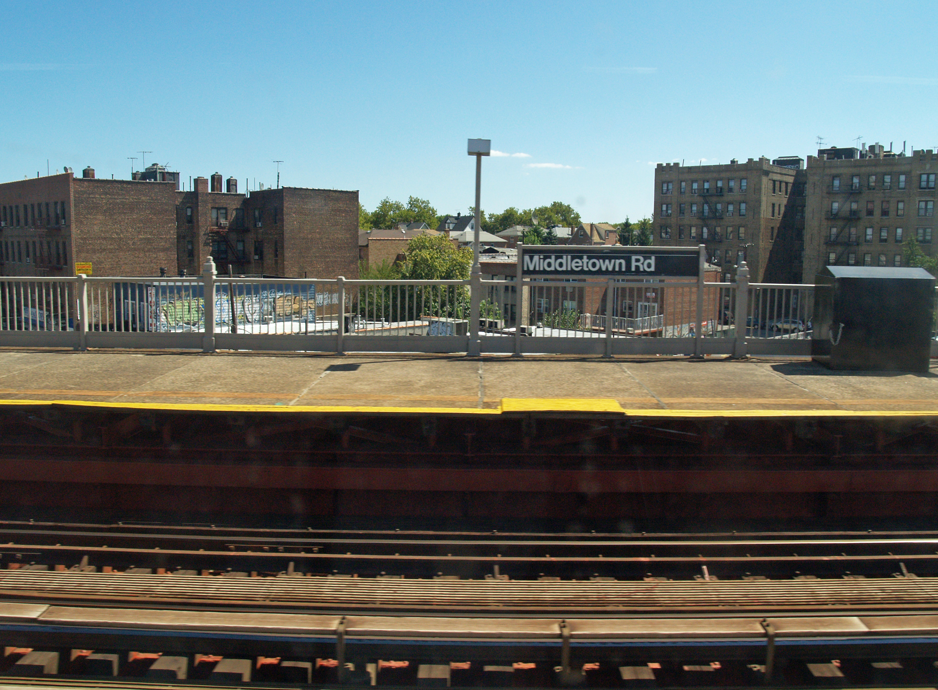 Middletown Road (IRT Pelham Line) by David Shankbone